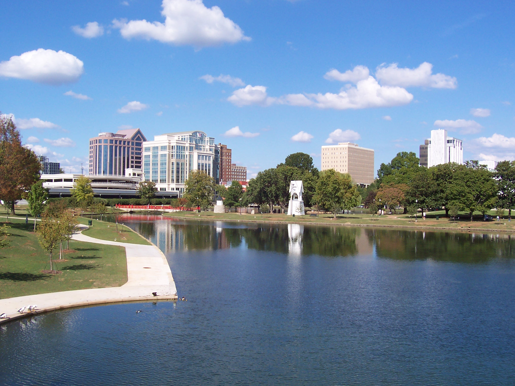 View of downtown Huntsville, Alabama from Big Spring International Park.